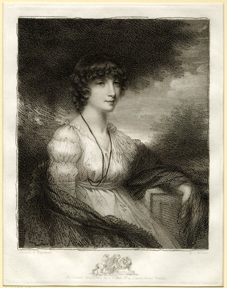 Lady Catherine Howard (1779-1850), she was the daughter of John Howard, 15th Earl of Suffolk. She married Reverend George Bisset. They were without issue.